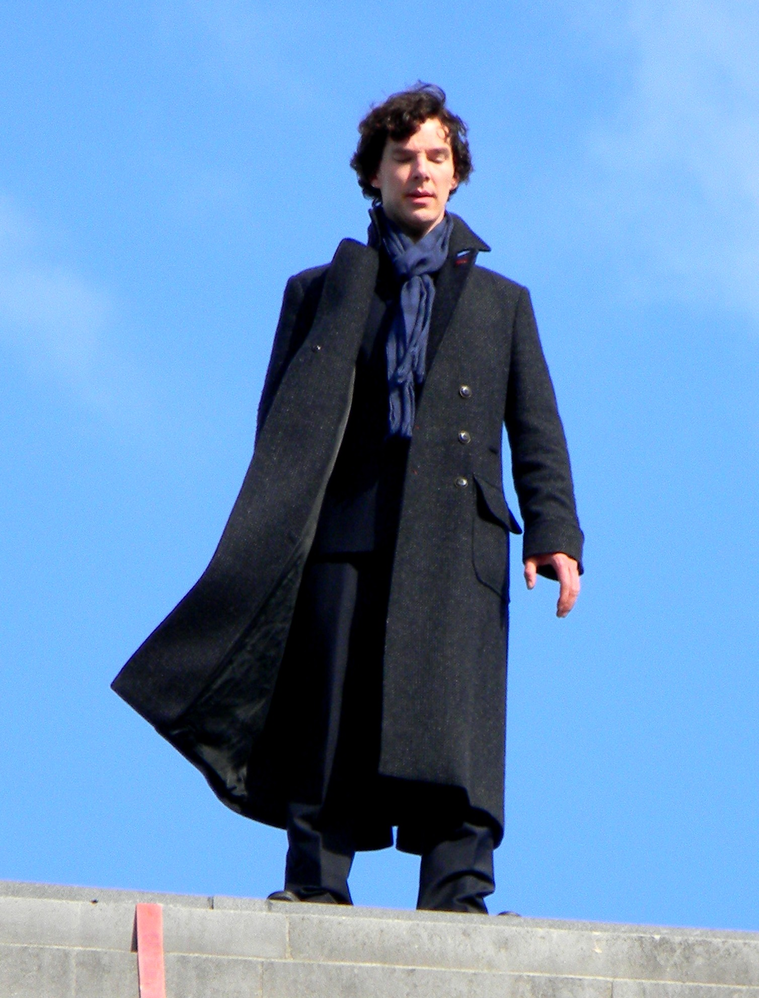 Filming the second series of "Sherlock", "The Reichenbach Fall" episode.